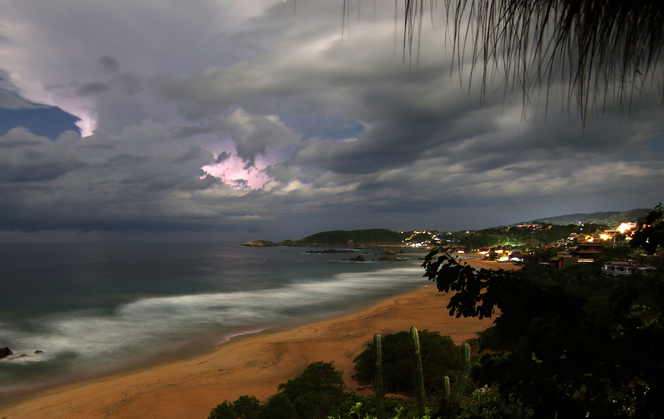 In-cloud lightning brightens the night sky over San Agustinillo, a village on the Pacific coast of Mexico.